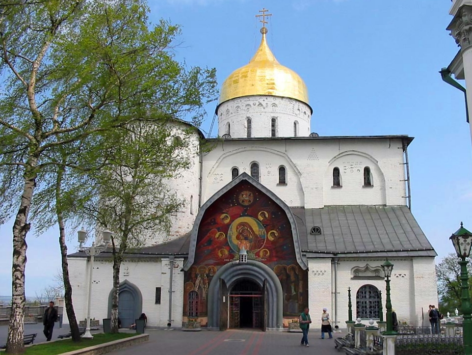 Trinity Catherdal